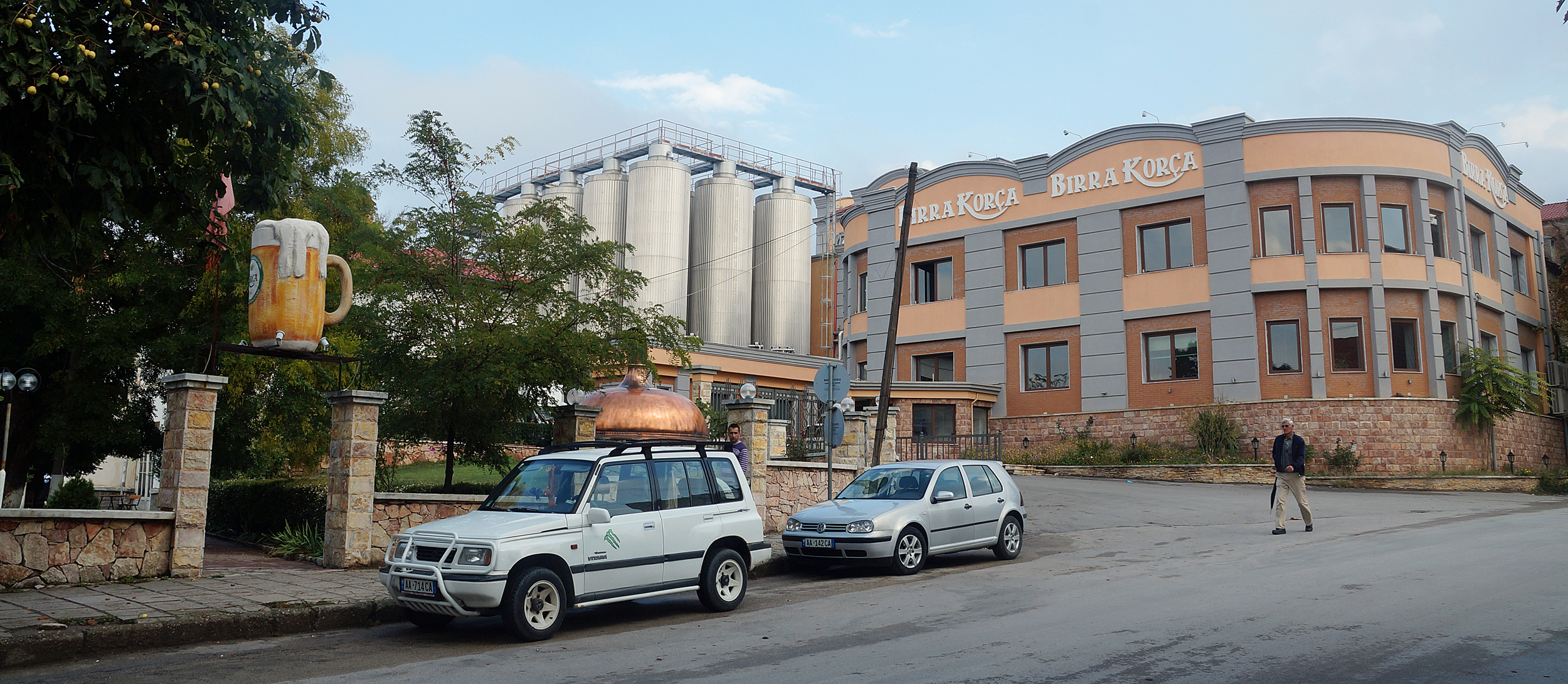 Birra Korça